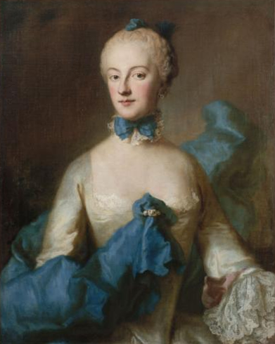 Portrait de Marie-Anne-Josèphe de Bavière, margravine de Bade (1734-1776)